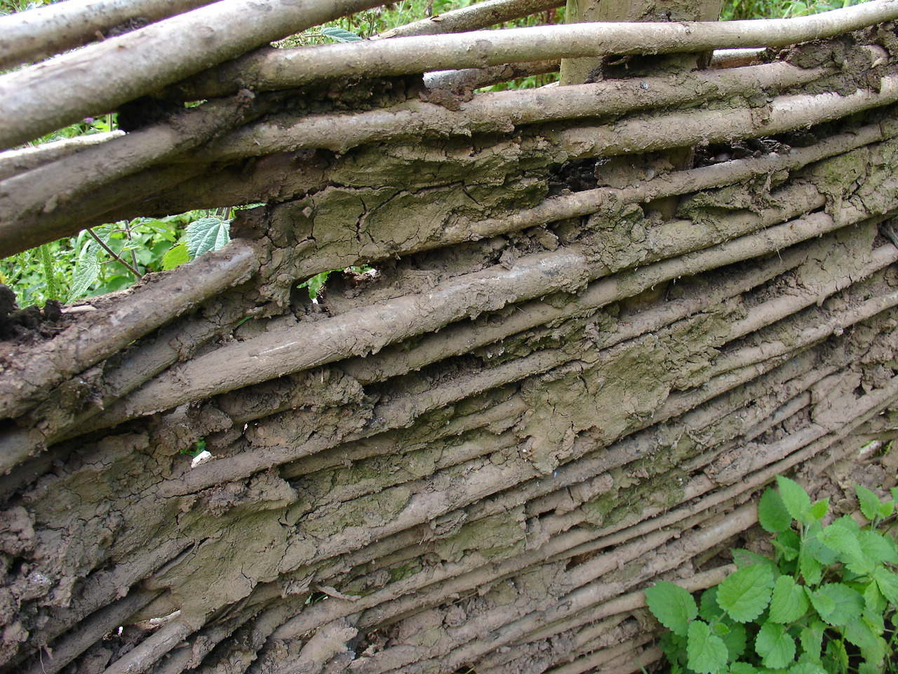 St. Fagans, National Museum Wales (Cardiff, UK): Construction of a wall (Celtic village).